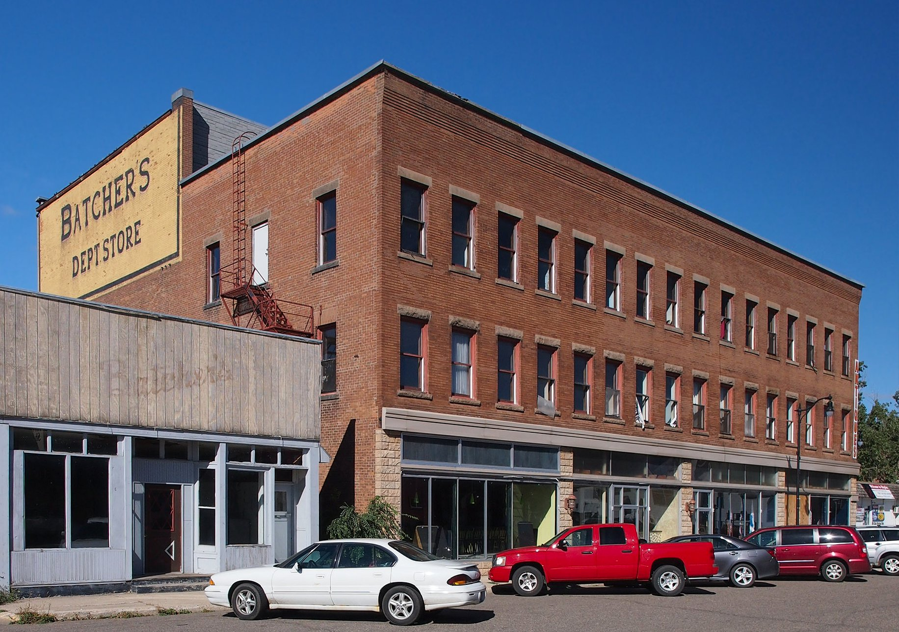 Batcher Opera House Block, Staples, Minnesota, USA. Viewed from the southeast.